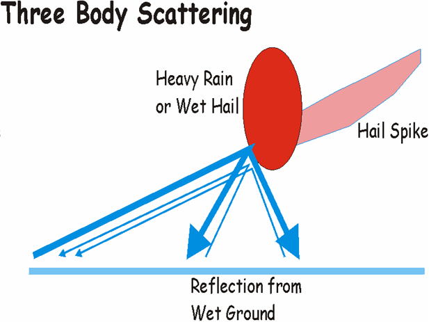 Multiple reflection of the beam sent by a radar that will eventually come back. Usually this effect is too weak to be noticed but is the case of hail this could lead to misplaced returns.